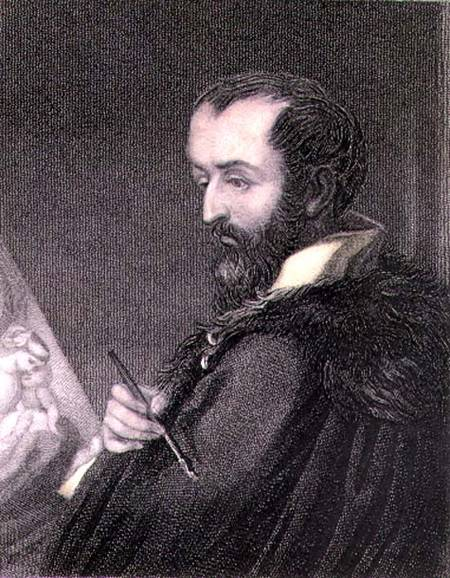 Antonio Allegri called Correggio. Self Portrait